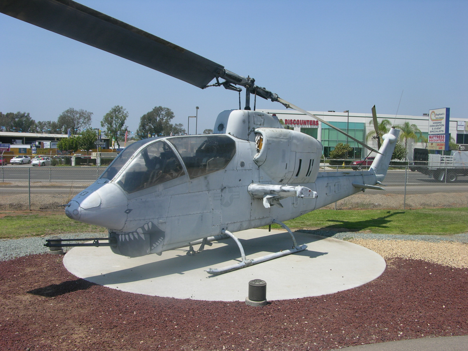 157784/WR-706 a Bell AH-1J in HMA-775 marks